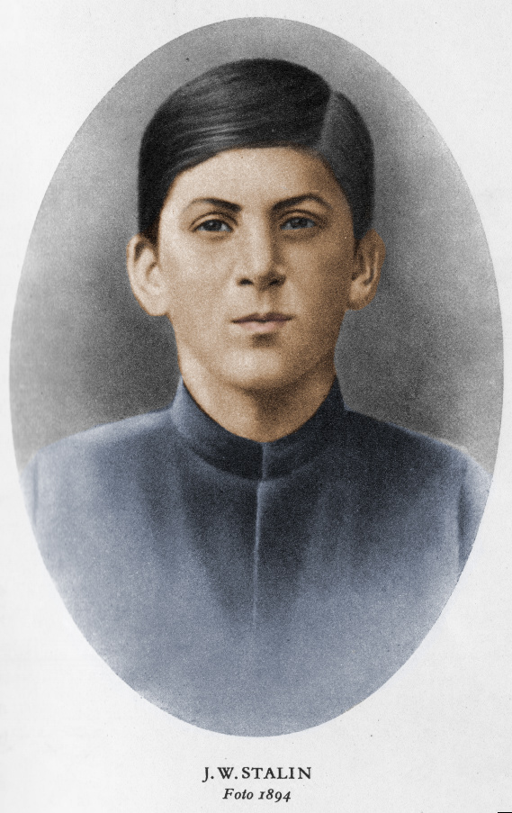 Joseph Stalin, 1894. Copied from the book "Josef Wissarionowitsch Stalin - Kurze Lebensbeschreibung" (Josef Wissarionowitsch Stalin - short live description), Publishing for russian literature in foreign languages, Moscow 1947